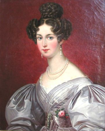 Queen Josephine